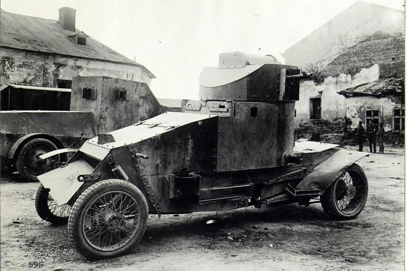 Captured Russian World War I armoured cars Jeffery-Poplavko (behind) and Lanchester 4×2. Original date 1915 is wrong - Jeffery armoured cars entered action in early 1917. According to one caption, date and place is August 1917, Zolochiv, Ukraine.